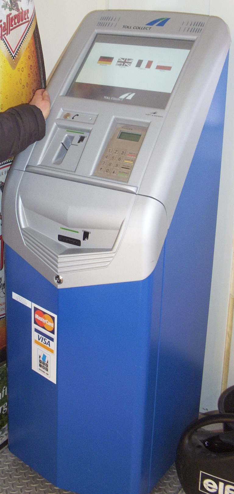 A Toll Collect GmbH terminal in Frankfurt (Oder). Self taken, 2003.